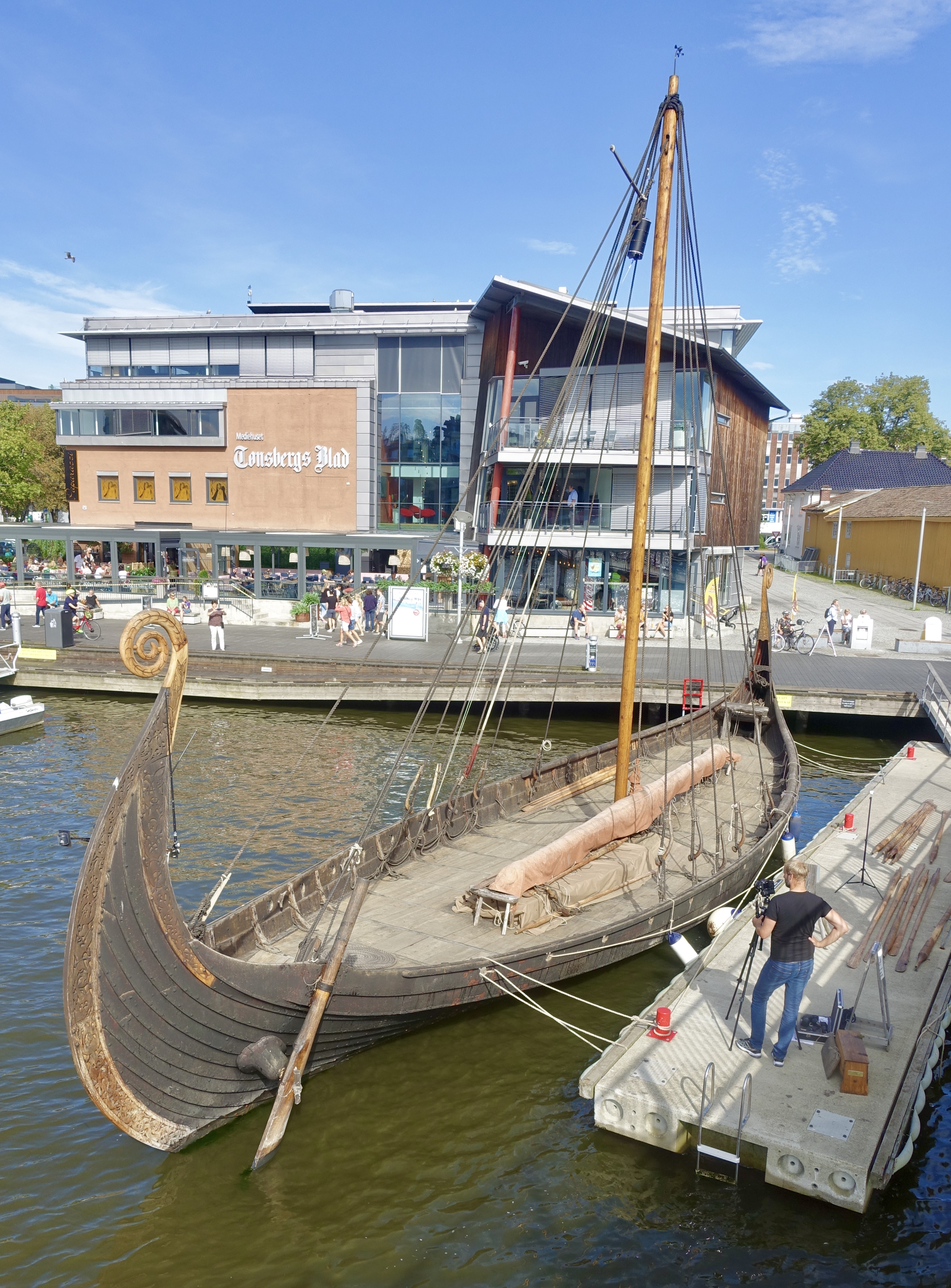 Saga Oseberg moored to the pier at the harbour of Tønsberg, Norway (Tønsberg havn / Tønsberg Brygge / Gjestebrygga / Brygga). The ship is built in 2012 as a replica (kopi i full skala) of the Norwegian Oseberg Ship (Osebergskipet), a Viking ship from ca. AD 830 discovered in a burial mound near Tønsberg. Photo taken on August 25th, 2019 showing a photographer documenting the ship. In the background is the office building of Tønsbergs Blad, a local newspaper, and tourists on the board walk / dock by the Byfjorden, a part of the Tønsbergfjorden fiord. Ship sizes in the Viking Age varied according to use. Trading vessels were broader and higher for cargo, warships longer and lower for speed. The Oseberg ship is a karve, a small type of longship used for war, ordinary transport and coasting, having a broad, shallow hull, a steering oar, bow and stern decorated with woodcarvings, etc. and equipped with both oars and a sail.